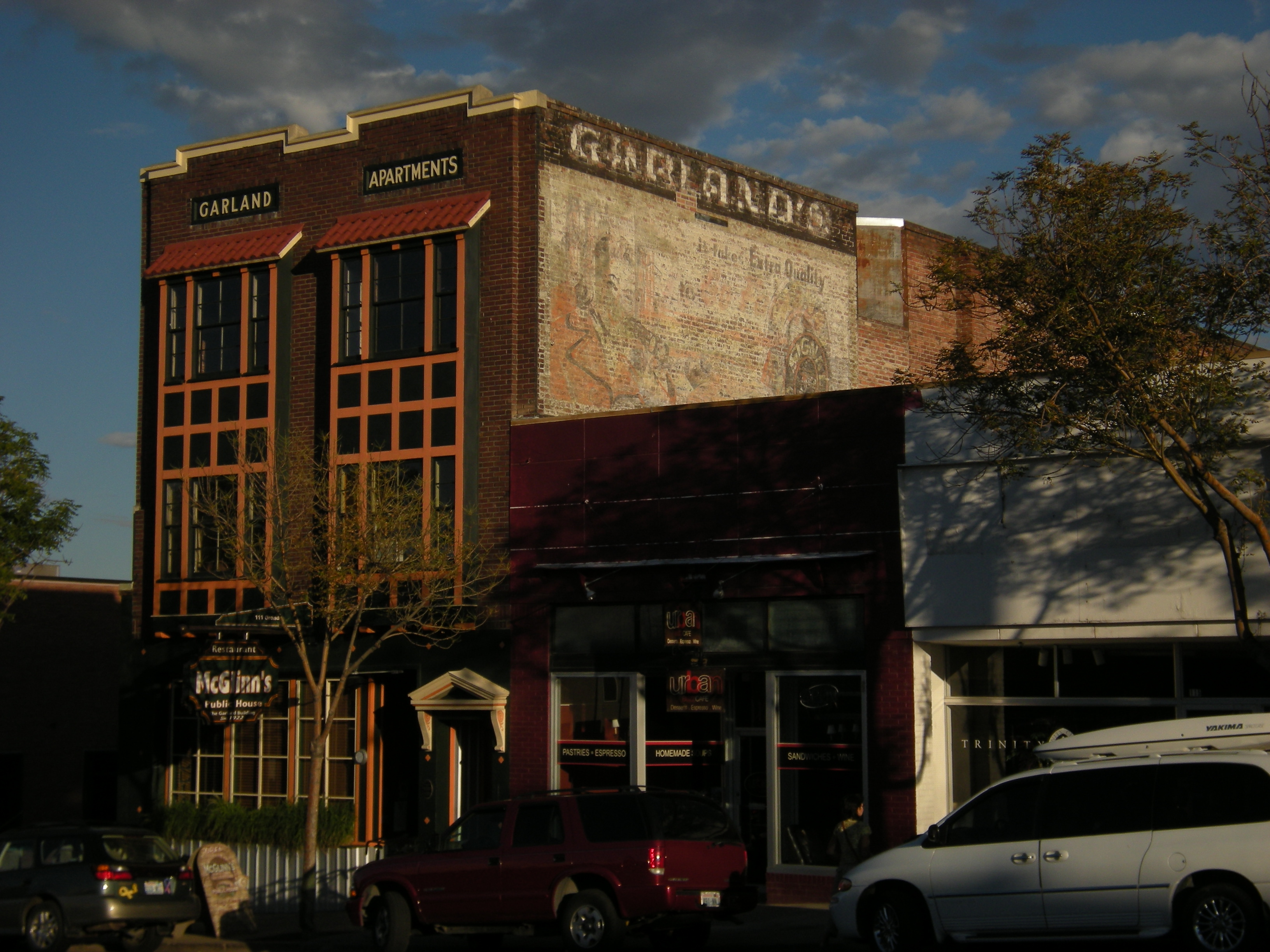 Garland Apartments (including McGlinn's Public House), Wenatchee, Washington.